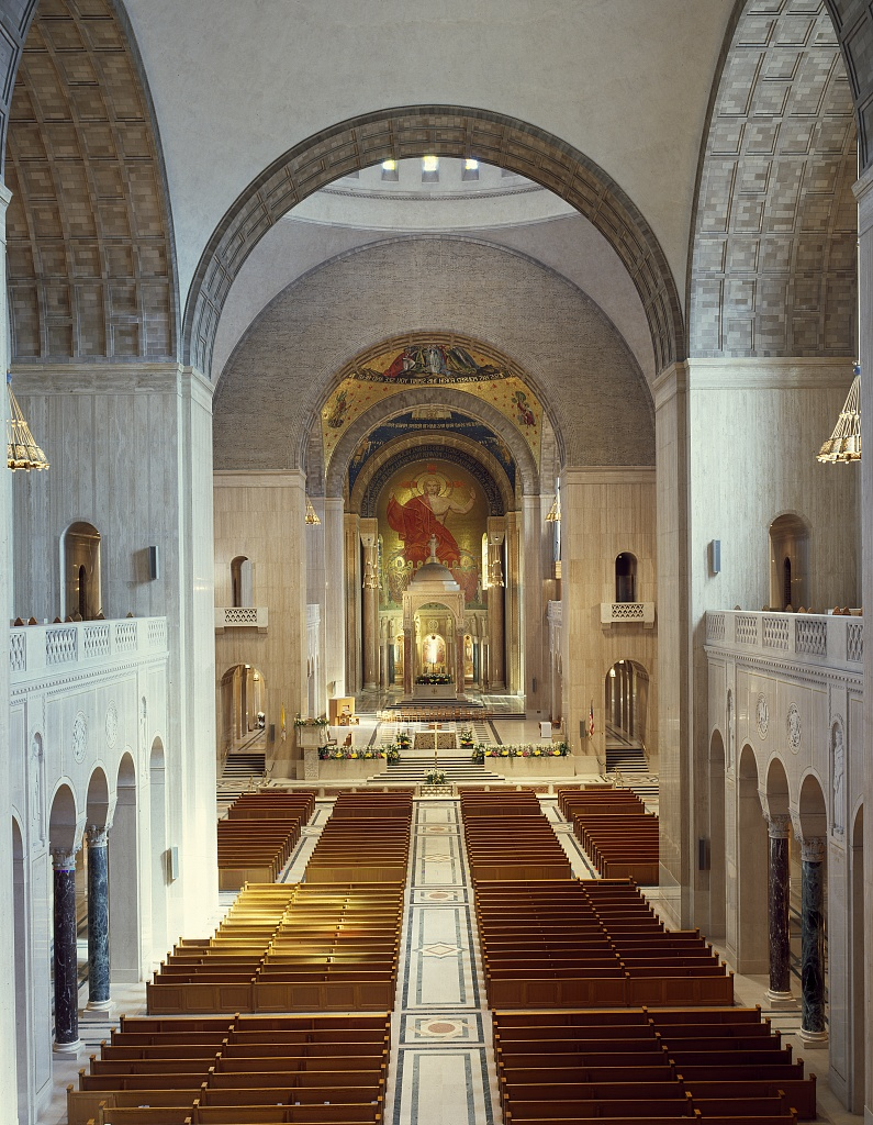 Sanctuary of the National Shrine of the Immaculate Conception on the campus of the Catholic University of America, Washington, D.C.